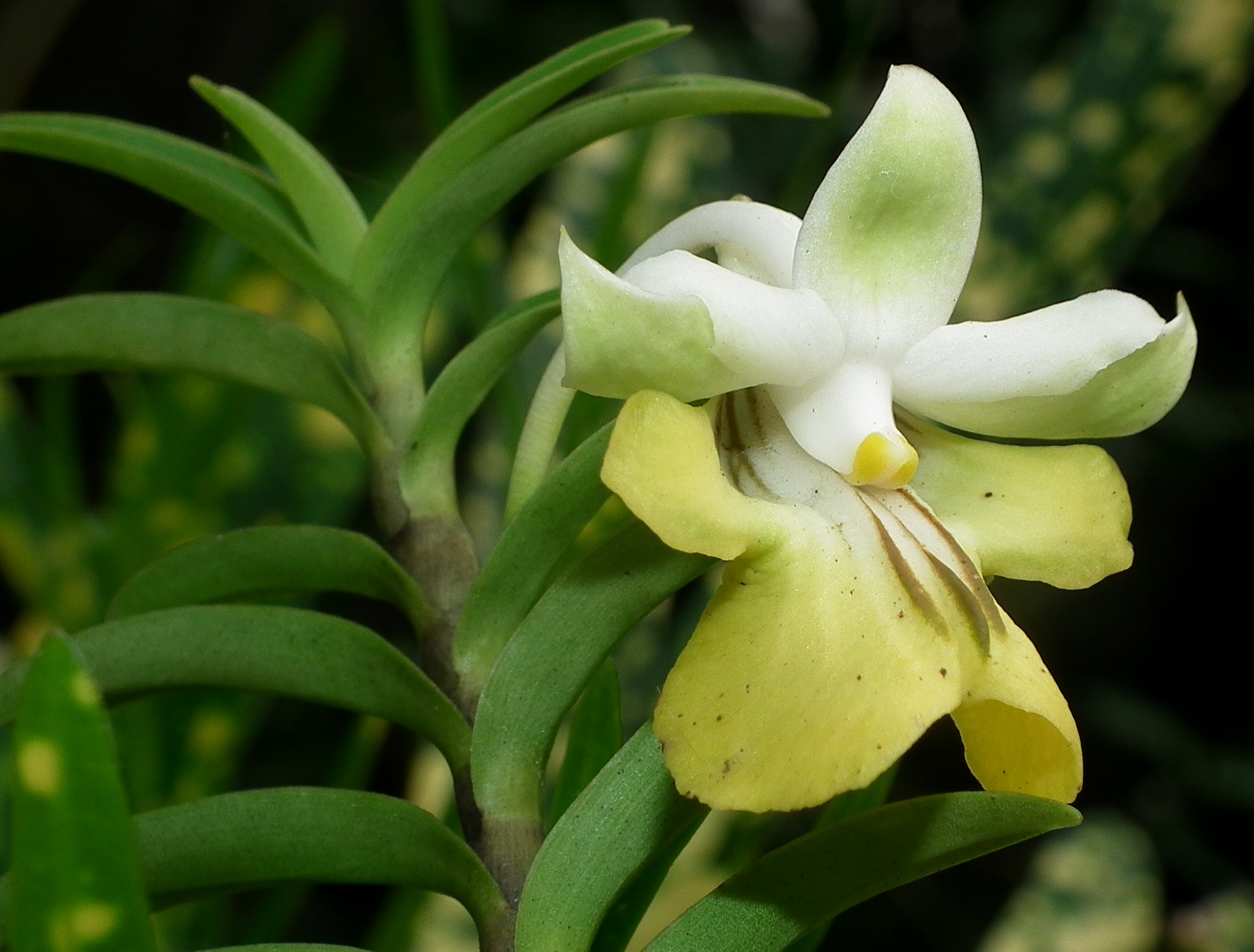 D. uniflorum in situ